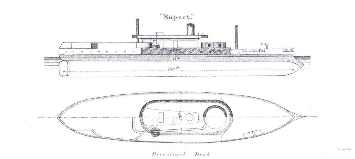 British breastwork monitor HMS Rupert, launched in 1872.